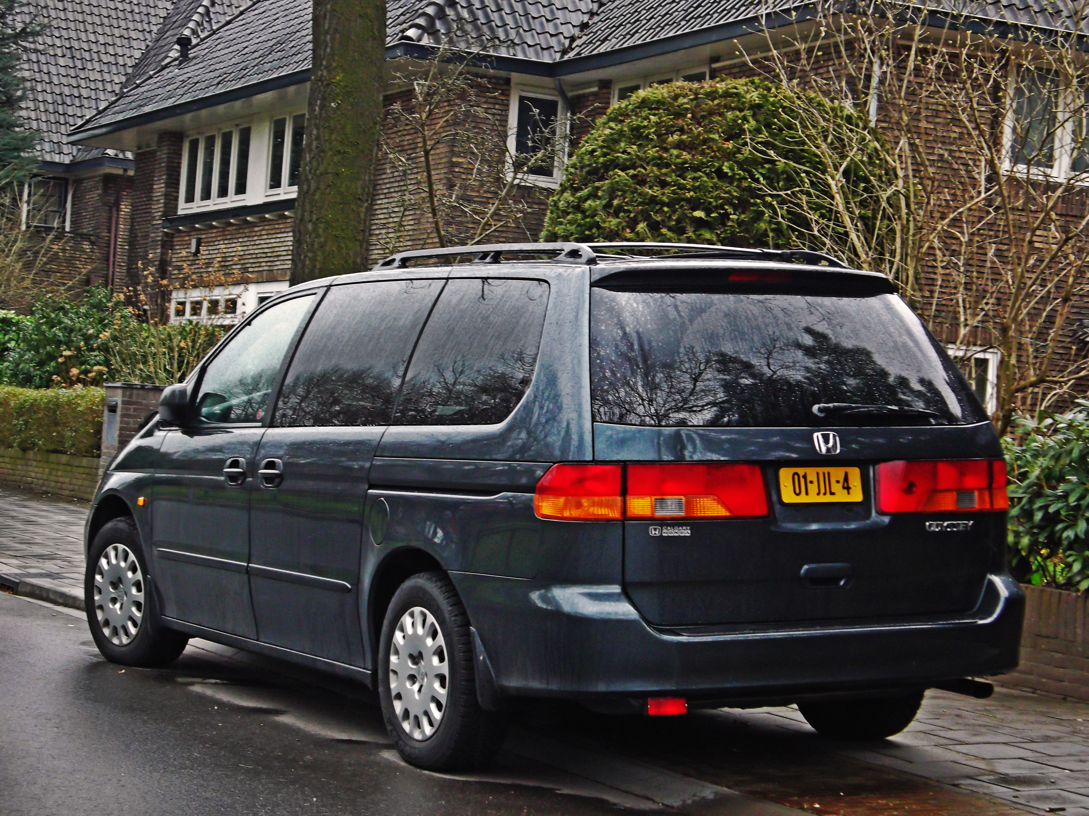 2004. "Calgary Honda" dealer sticker.